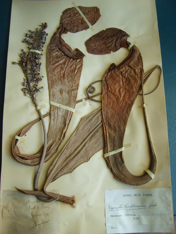 Herbarium specimen of Nepenthes rafflesiana deposited at the Museum National d'Histoire Naturelle in Paris, France.